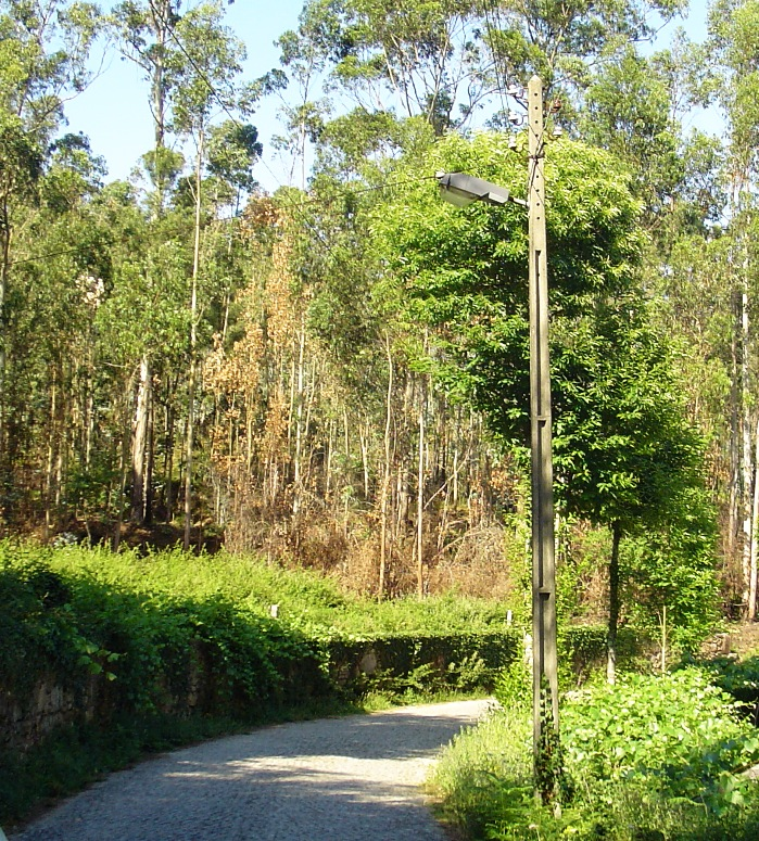 Caminho rural do interior de Vila Nova de Gaia